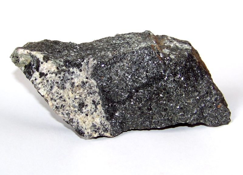 Pyroxenite